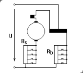 Electric motors